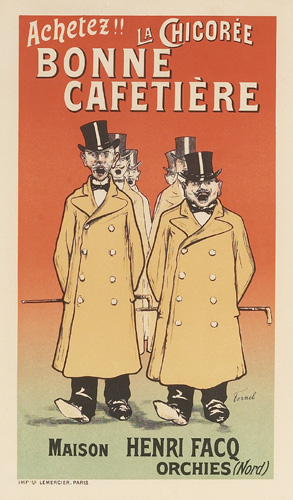 Poster